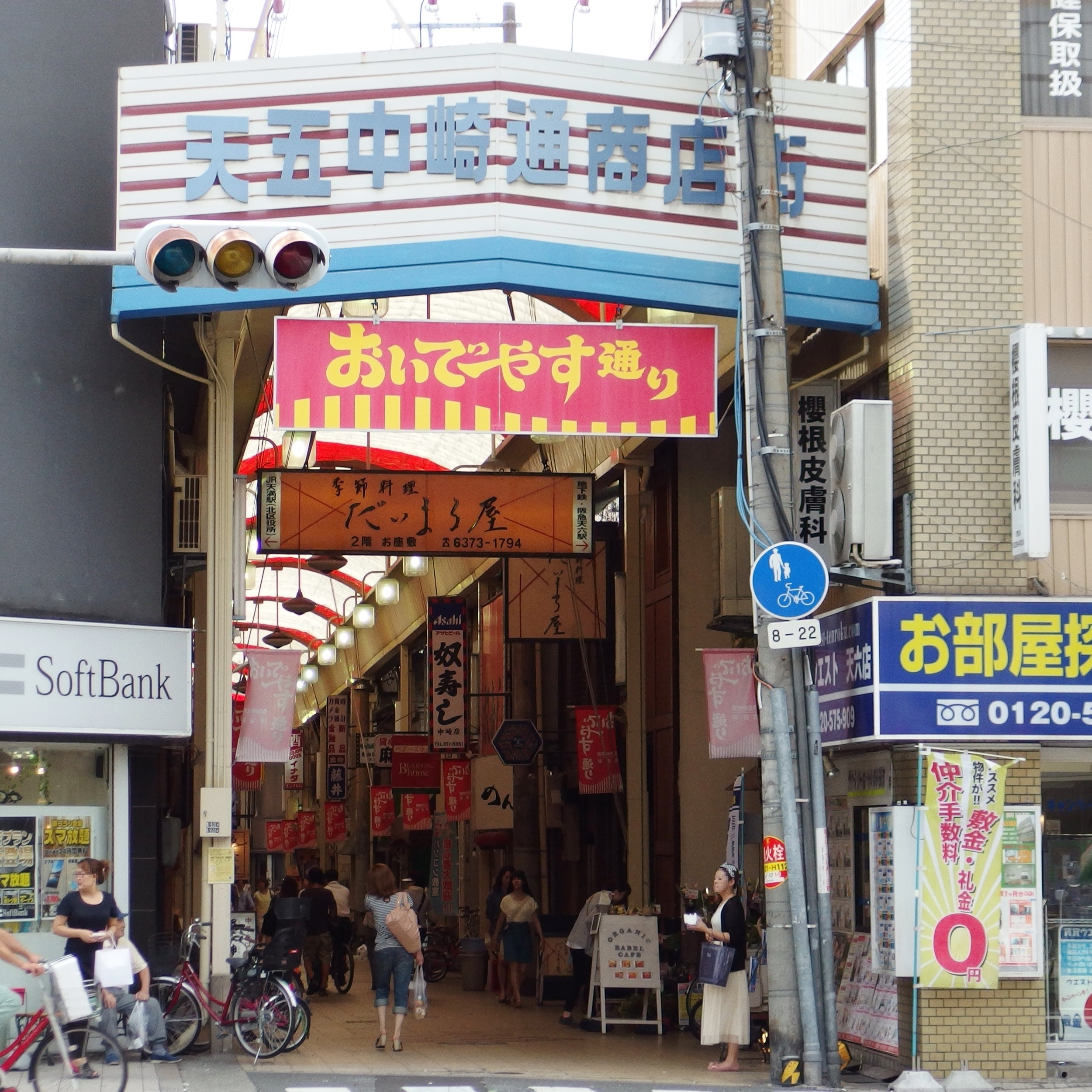 Tengo-Nakazaki-dori_Shopping_Mall, Osaka, Osaka prefecture, Japan